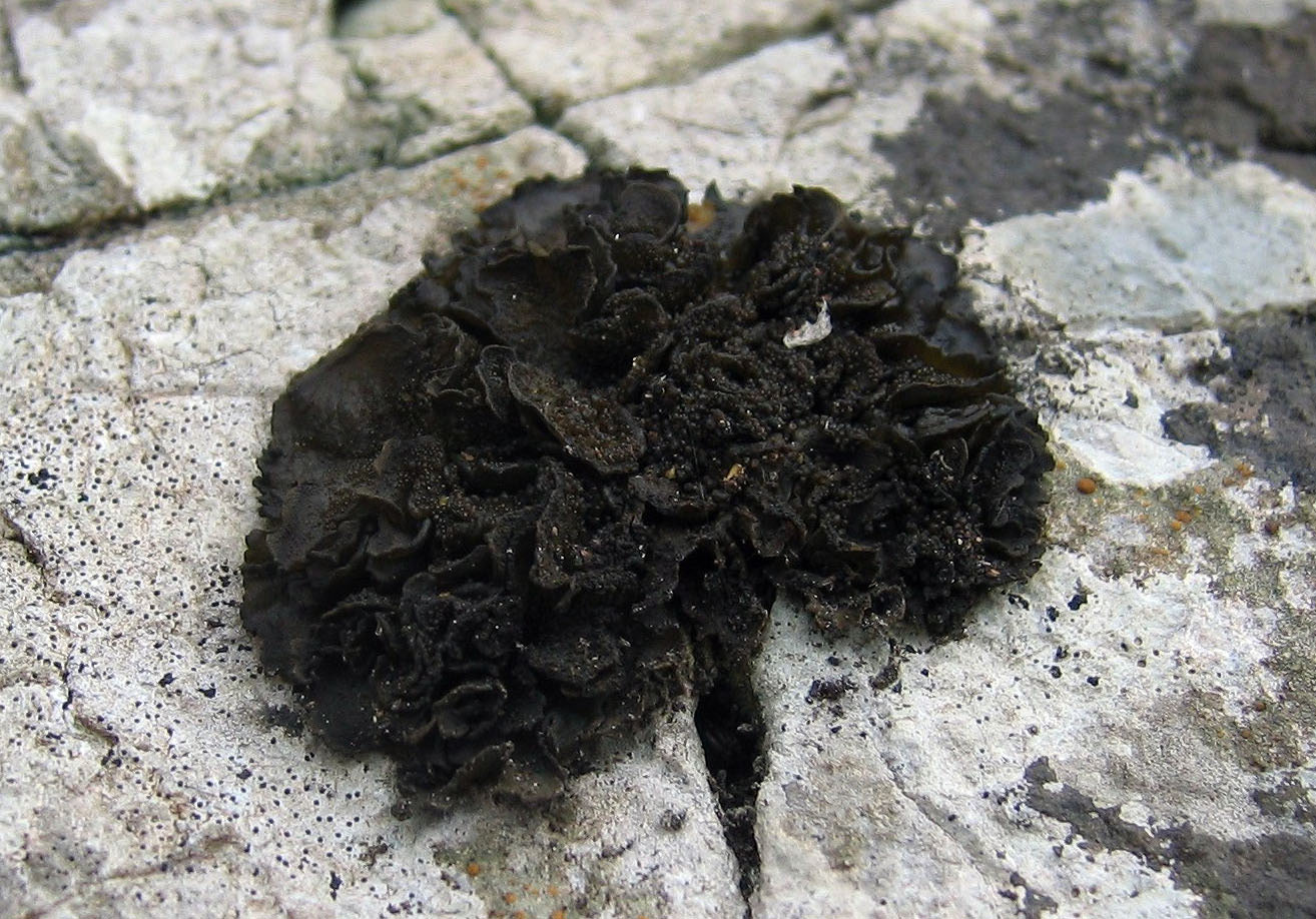 Collema cristatum Near Traunsee, Upper Austria, Austria